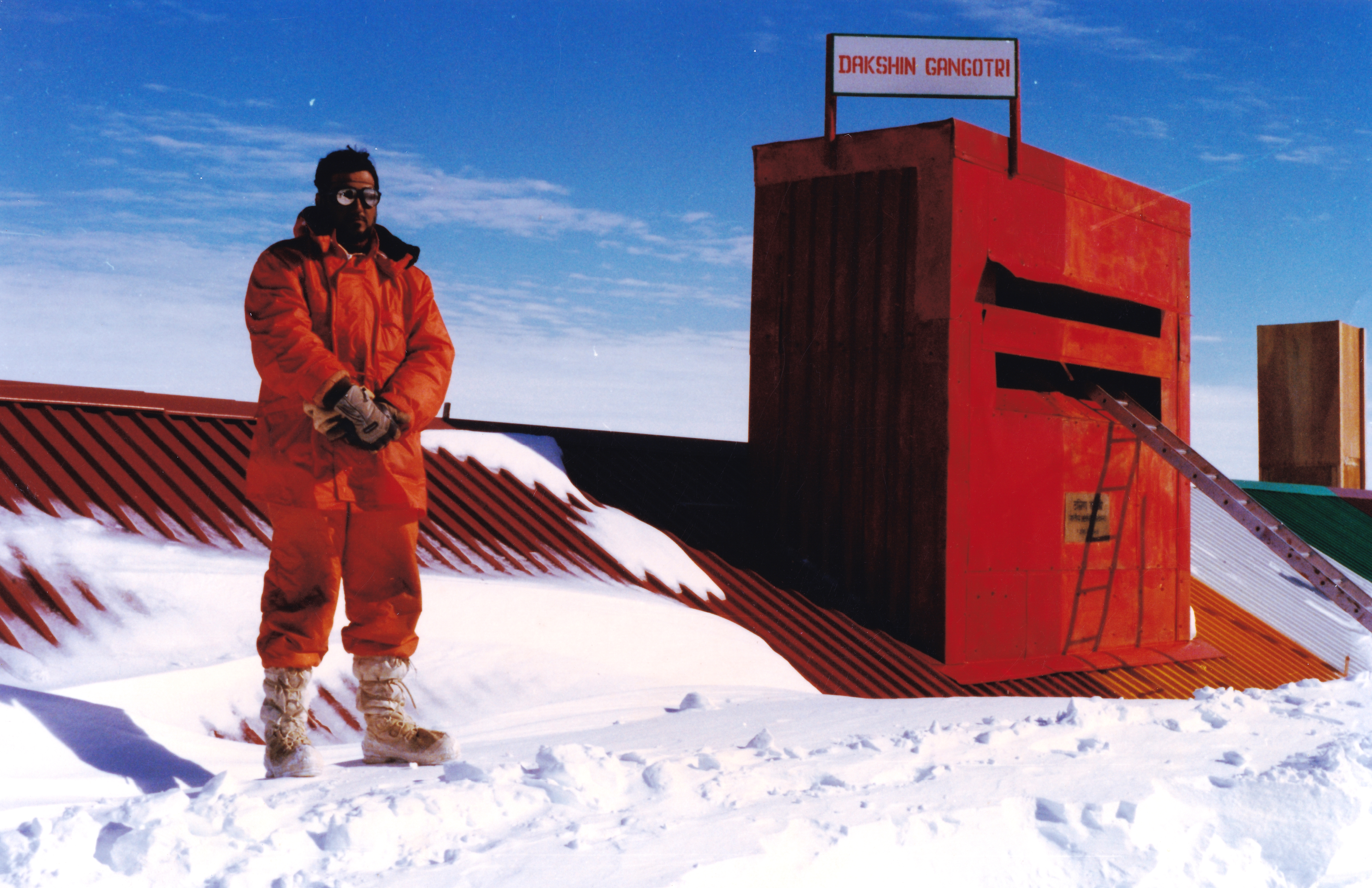 Mohammed Ghous uzzaman, a member of 7th Indian Antarctic Expedition Team at Dakshin Gangotri. (26 January 1988)